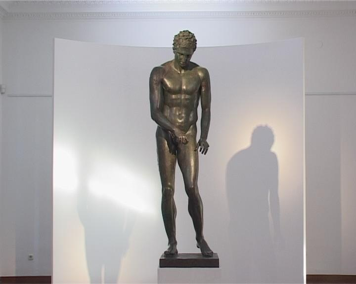 The statue of Apoxyomenos exhibited in the Archeological Museum in Zagreb